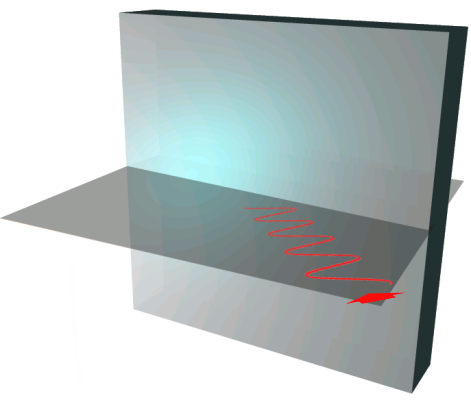 Illustration of a reflection with a p-polarized wave.